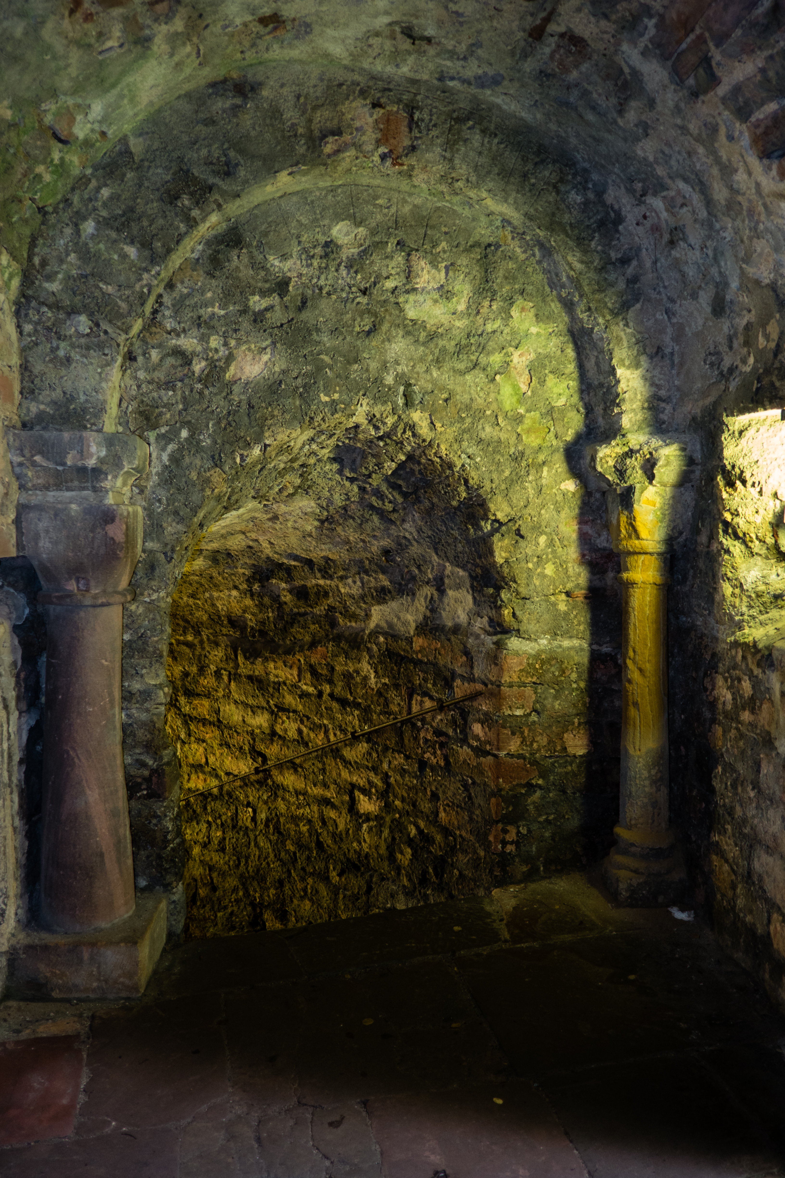 Mikvah of the synagogue Worms, Rhineland-Palatinate, Germany